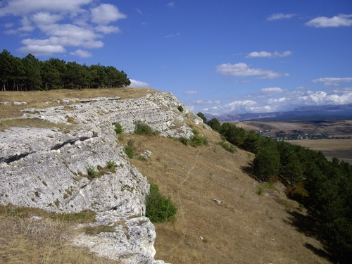 Internal(Second) Ridge of Crimean mountains near Simferopol